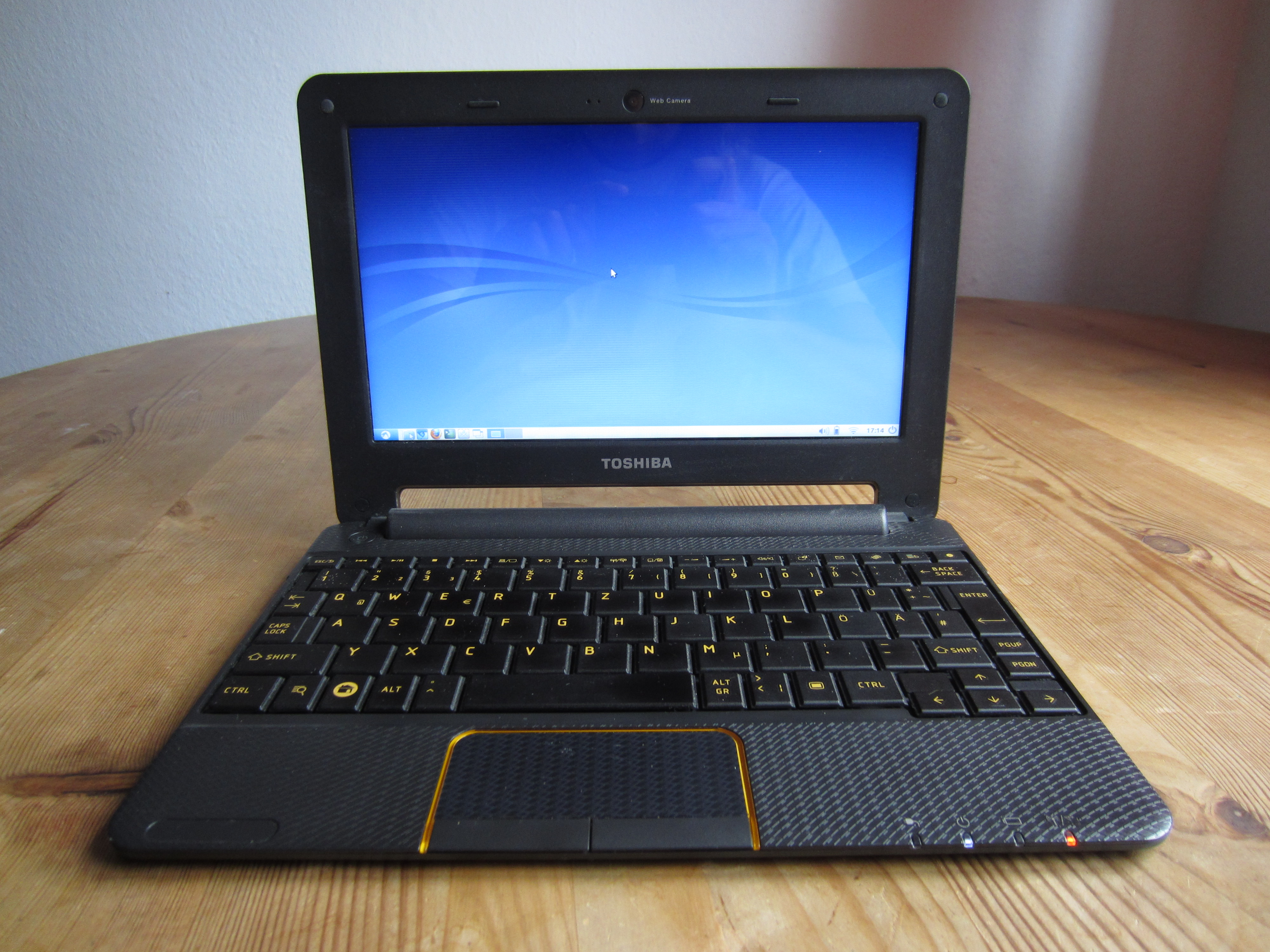 Toshiba AC100 mini-laptop with Lubuntu Linux Desktop.